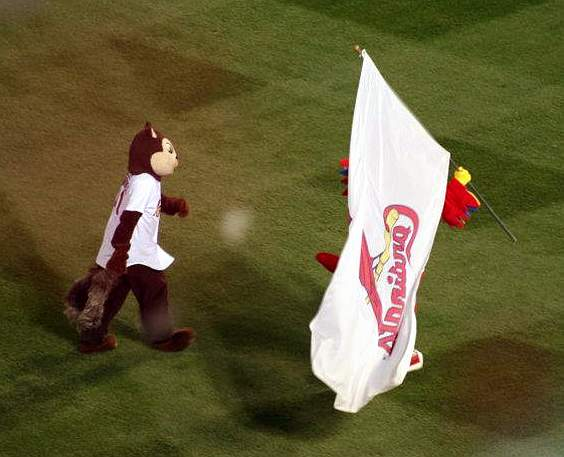 St. Louis Rally Squirrel and Fredbird mascots walking on the field at Busch Stadium prior to Game 7 of the 2011 World Series. No inbedded metadata due to my cropping & editing of my original pic. Photo was taken from the stands with a Canon Rebel XTI with 70-300 zoom.